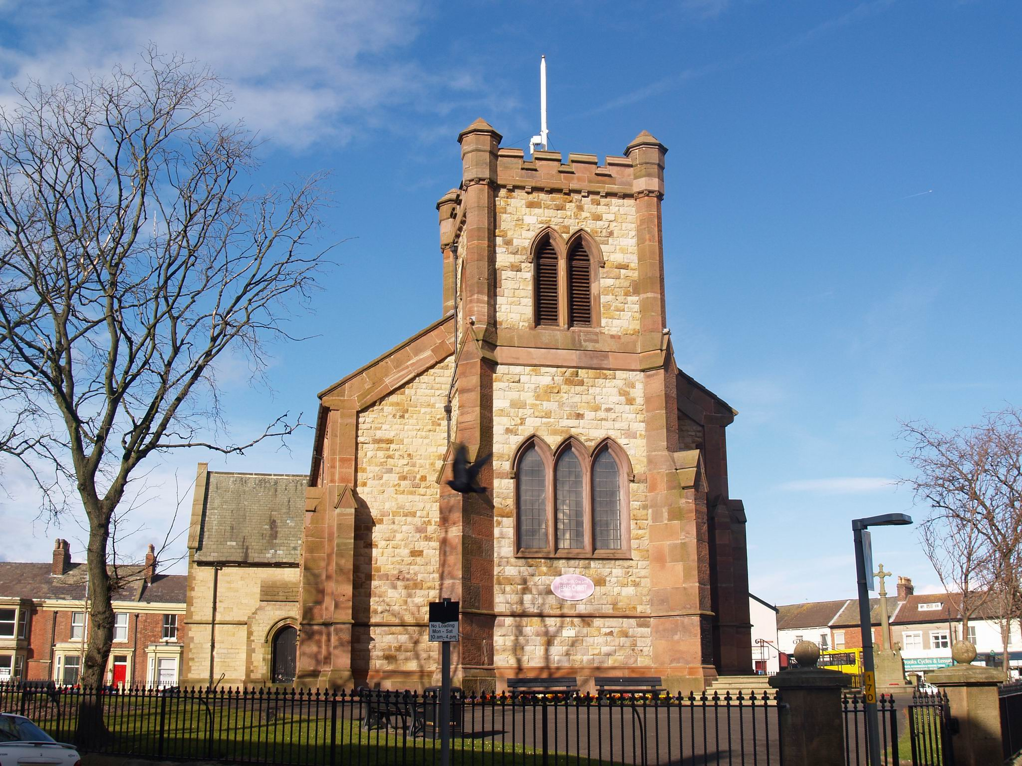 Fleetwood-Mar 2008 - St Peter's Church, North Albert St (1841) The Parish church, designed by Decimus Burton